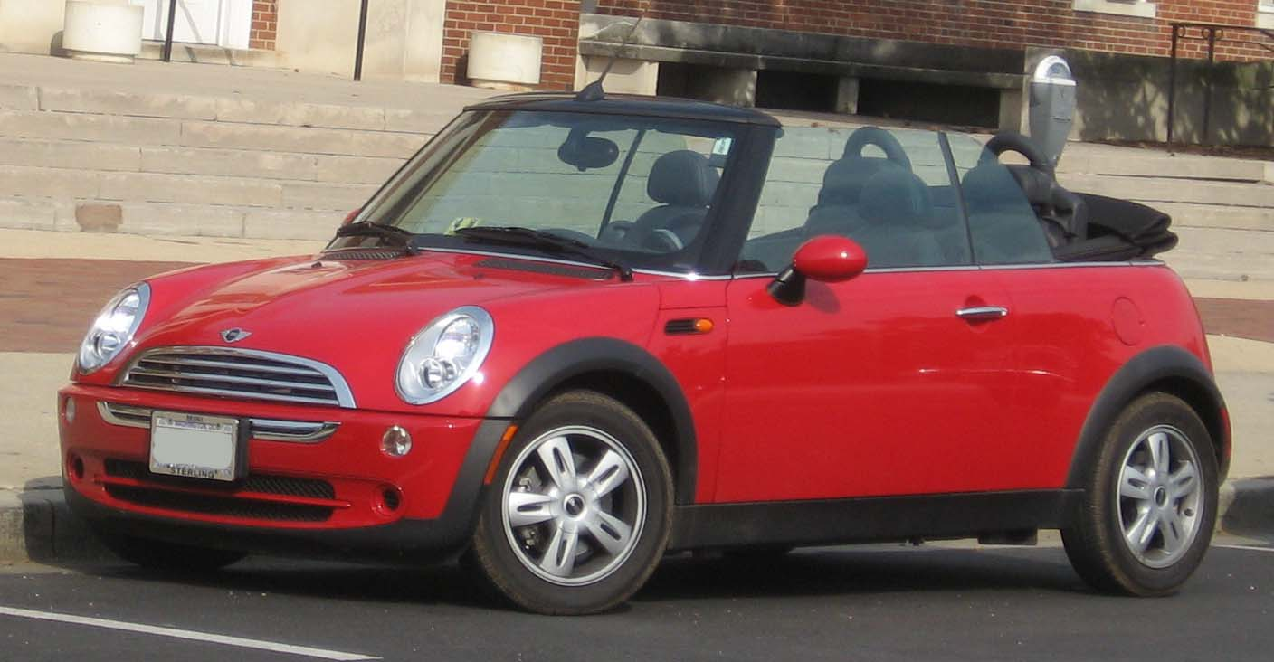 2003-2007 Mini Cooper photographed in College Park, Maryland, USA.